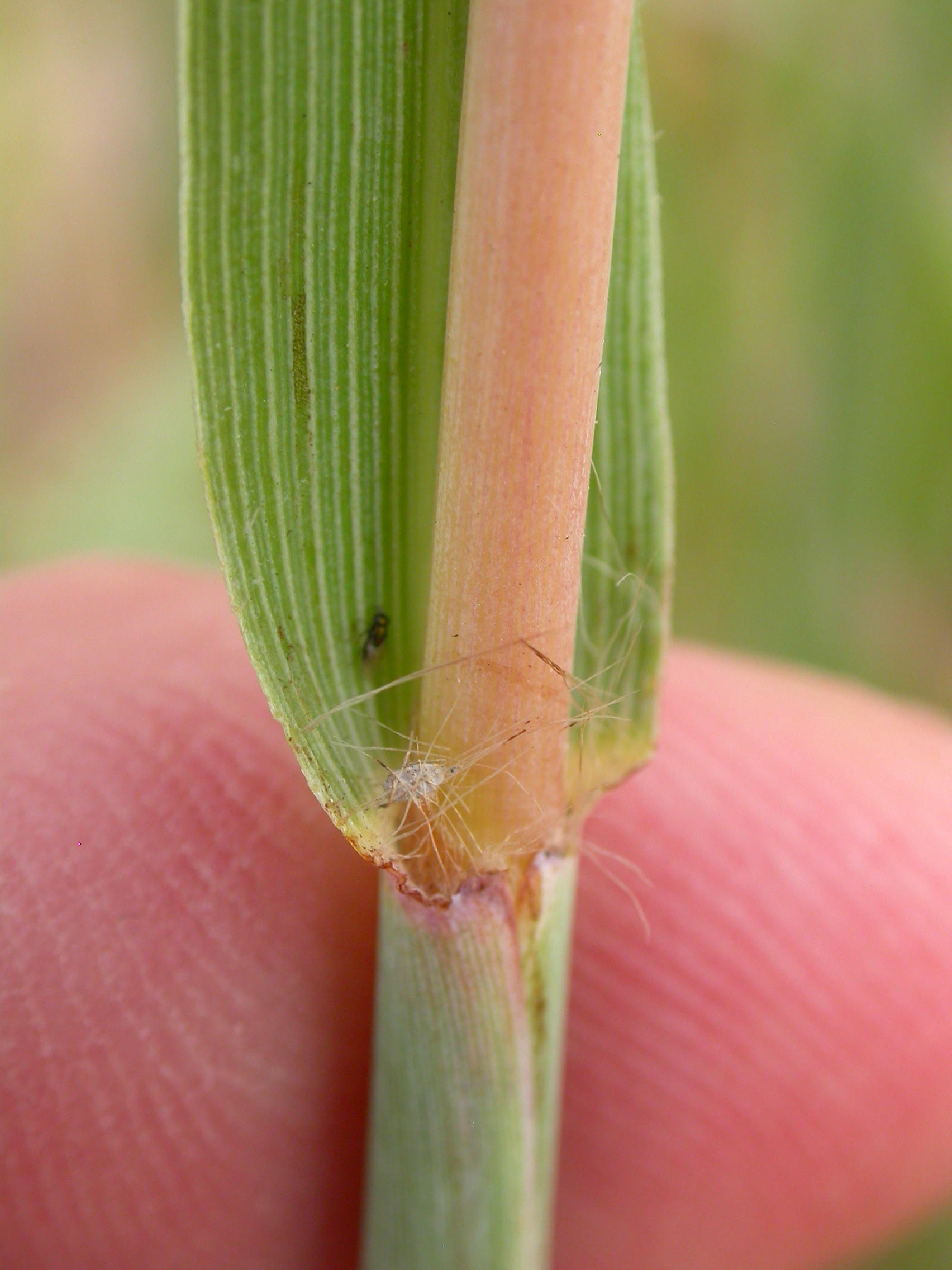 Although hairy about the collar and auricle region, the ligule is mostly membraneous.